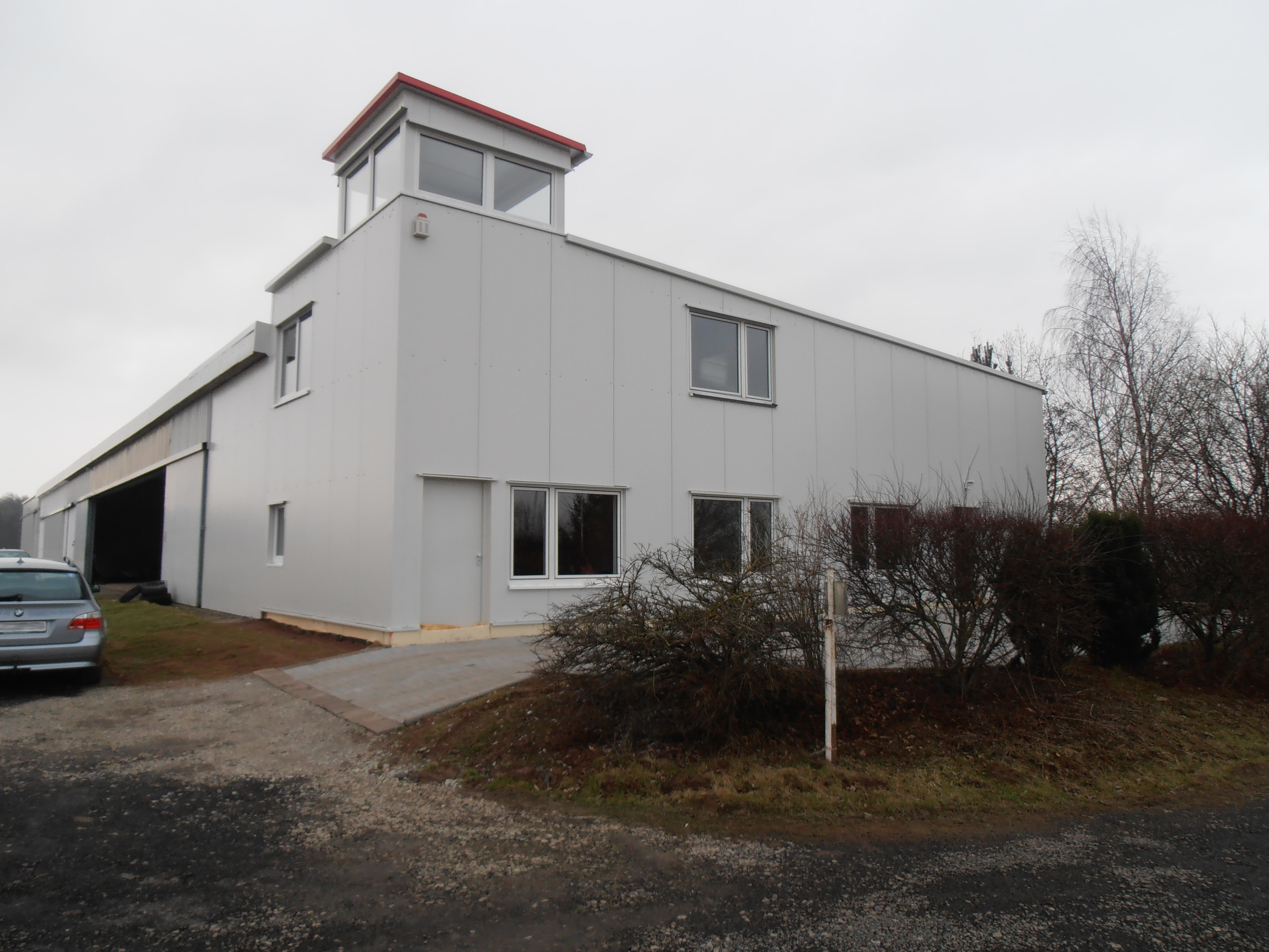 It is a picture of a new building annex from the